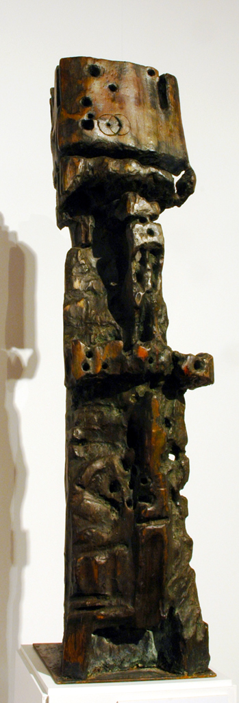 Sculpture by Jan Koblasa, Prophet, stained wood (1966-67)